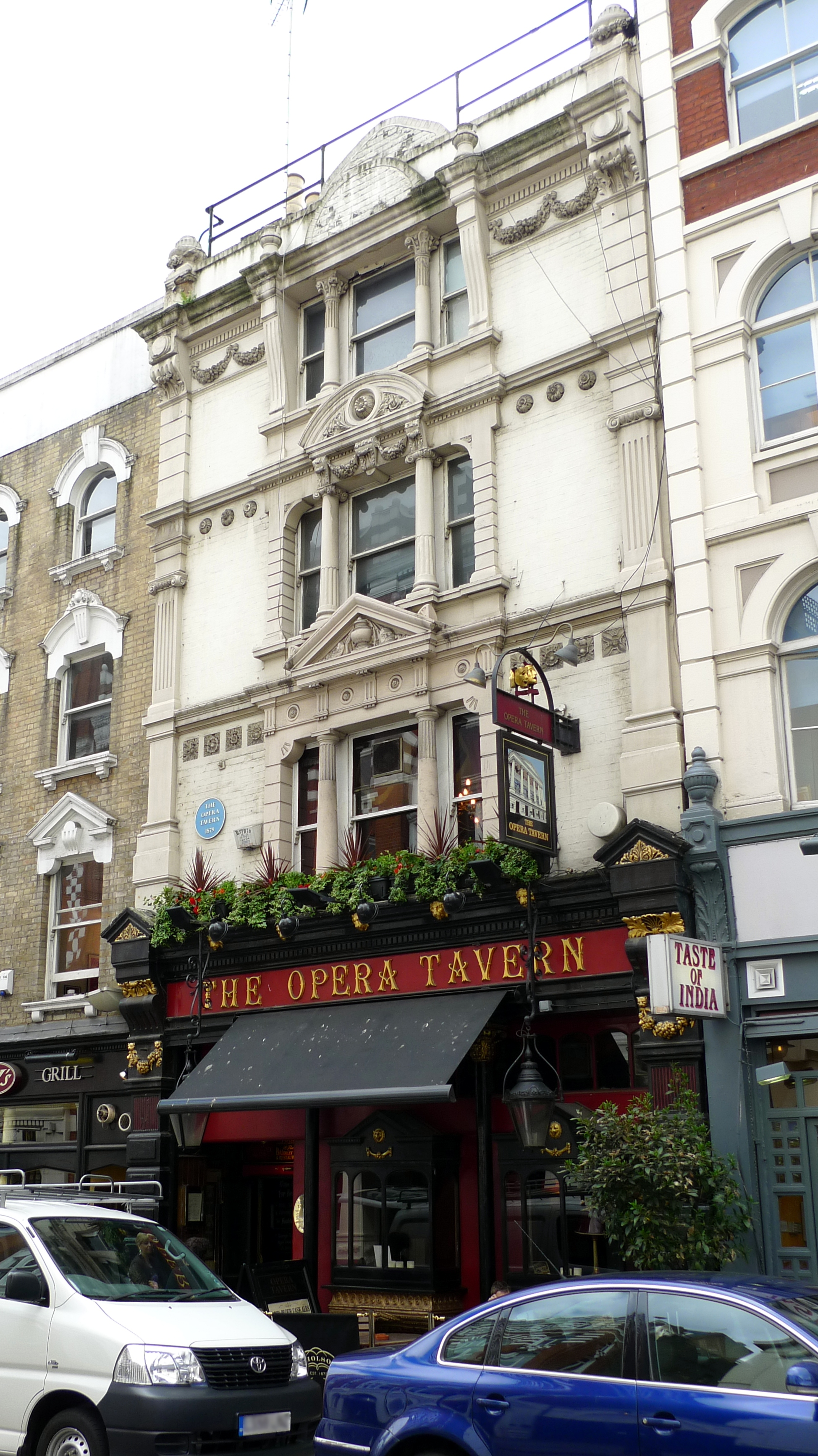 A decent Nicholson's pub in an area dominated by theatres (rather than operas, though it's not too far from the Royal Opera House). It was closed and boarded in 2010, and reopened under the same name as a tapas bar. Address: 23 Catherine Street. Former Name(s): The Sheridan Knowles (on the same site); The Yorkshire Grey (on the same site). Owner: Mitchells and Butlers [Nicholson's] (former); Taylor Walker (former). Links: Fancyapint Beer in the Evening Qype Dead Pubs (history)